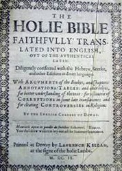 Old Testament - Douay Bible - 1609 - English College, University of Douai